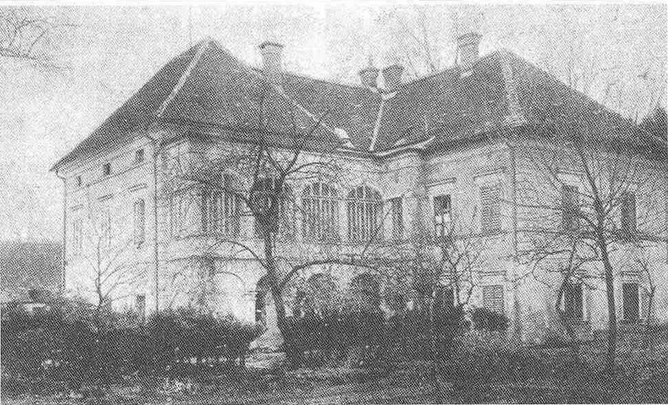 Jama Castle, Slovenian Illustrated